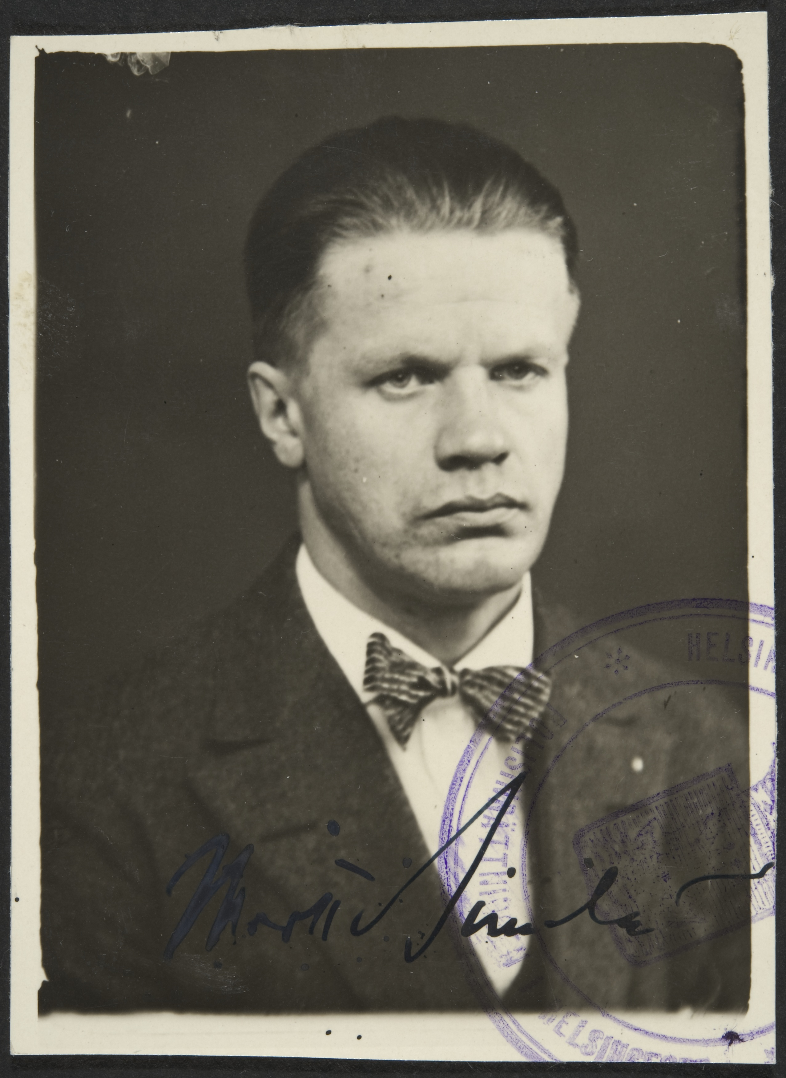 Passport photo of Martti Similä, ca. 1930